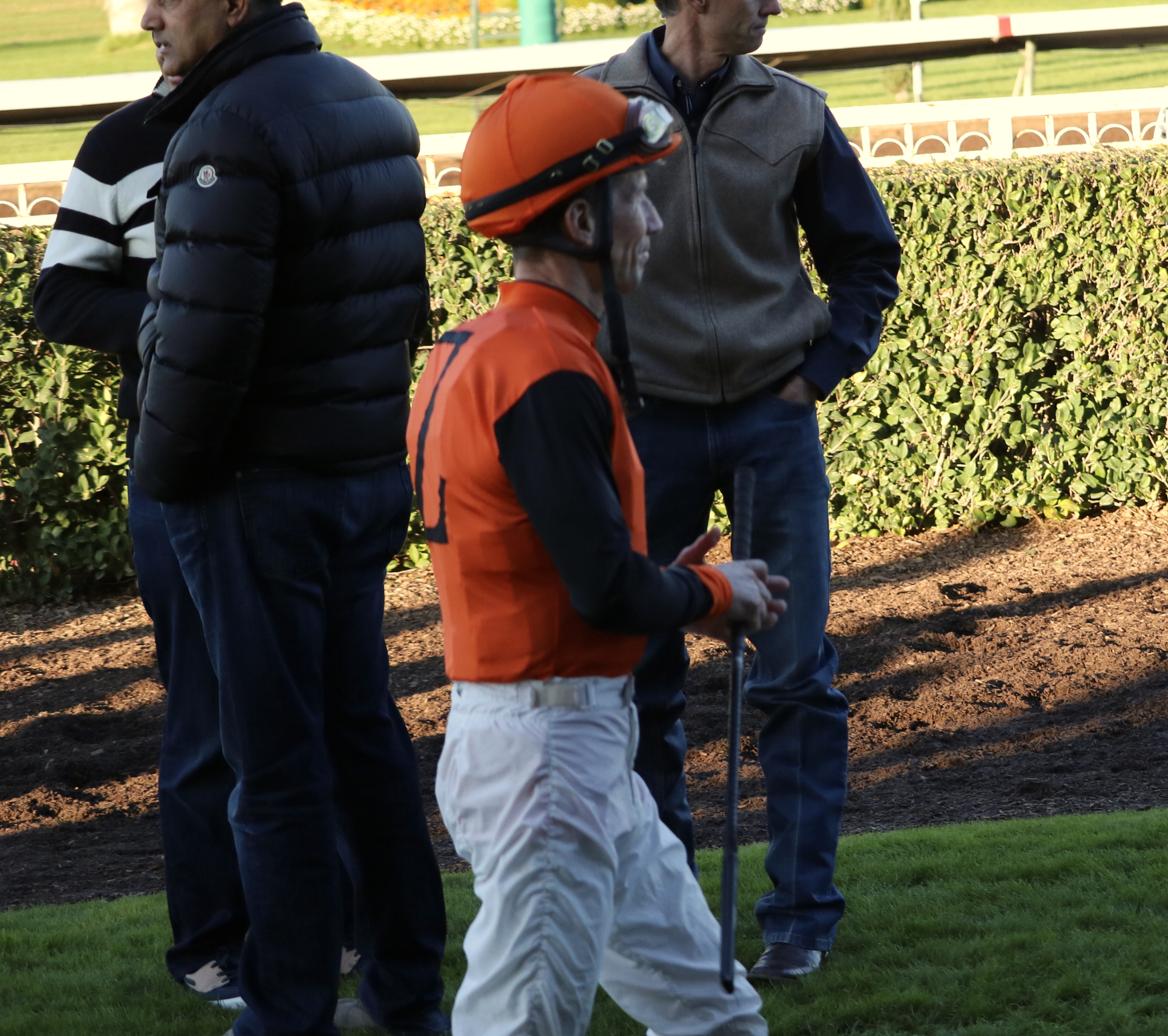 Stewart Elliott at Los Alamitos racetrack December 17, 2016